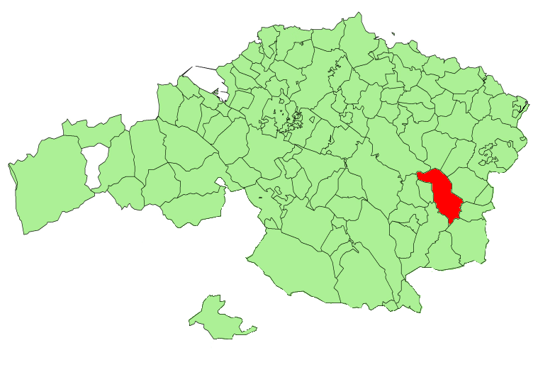 Berriz municipality in the province of Biscay